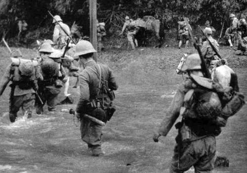 Soldiers of IJA 16th division during the invasion of the Philippines, 1942